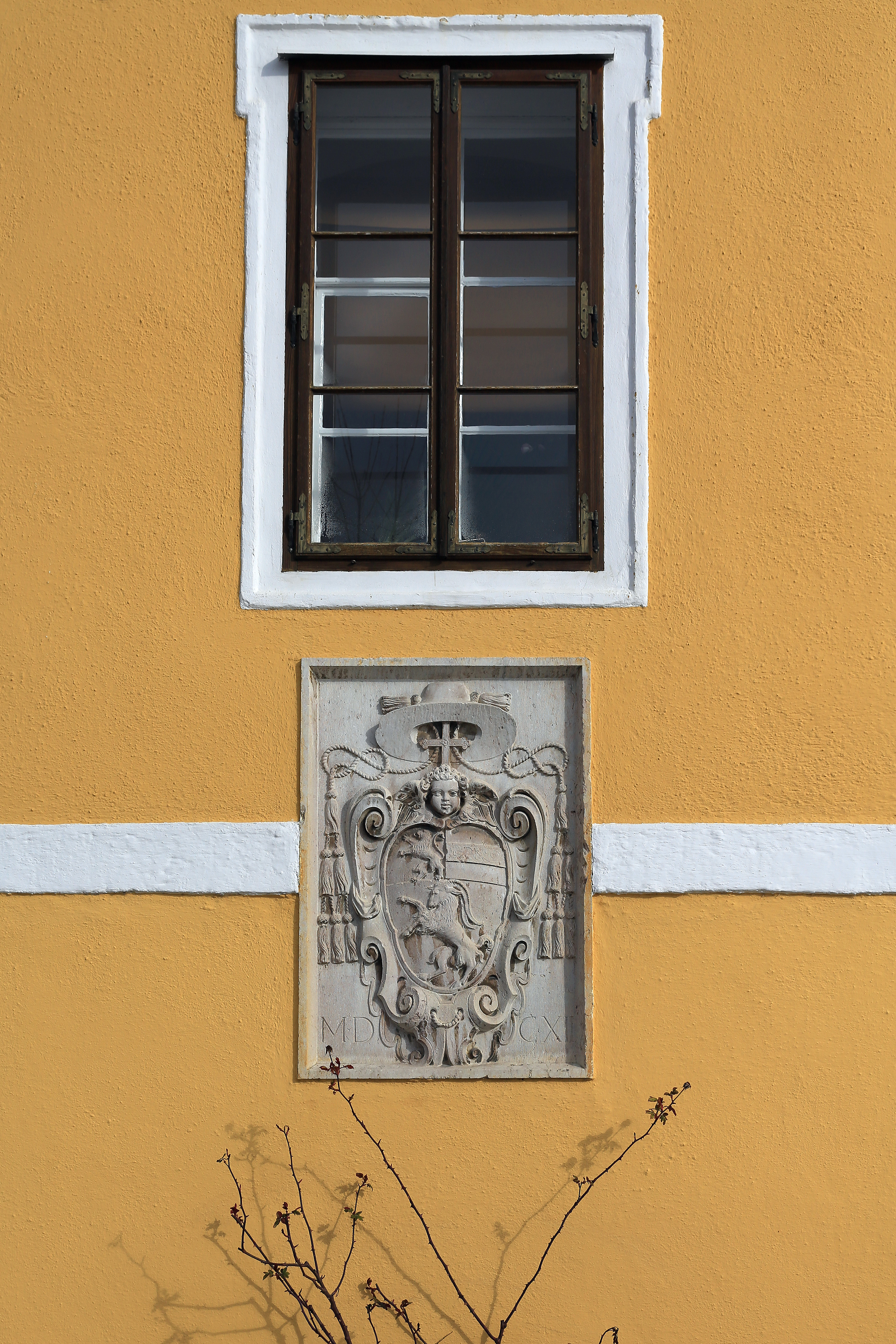 Coats of arms of Mark Sittich von Hohenems at the main building of Salzburg Zoo (Salzburg, Austria).